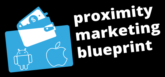 Proximity Marketing Blueprint Logo